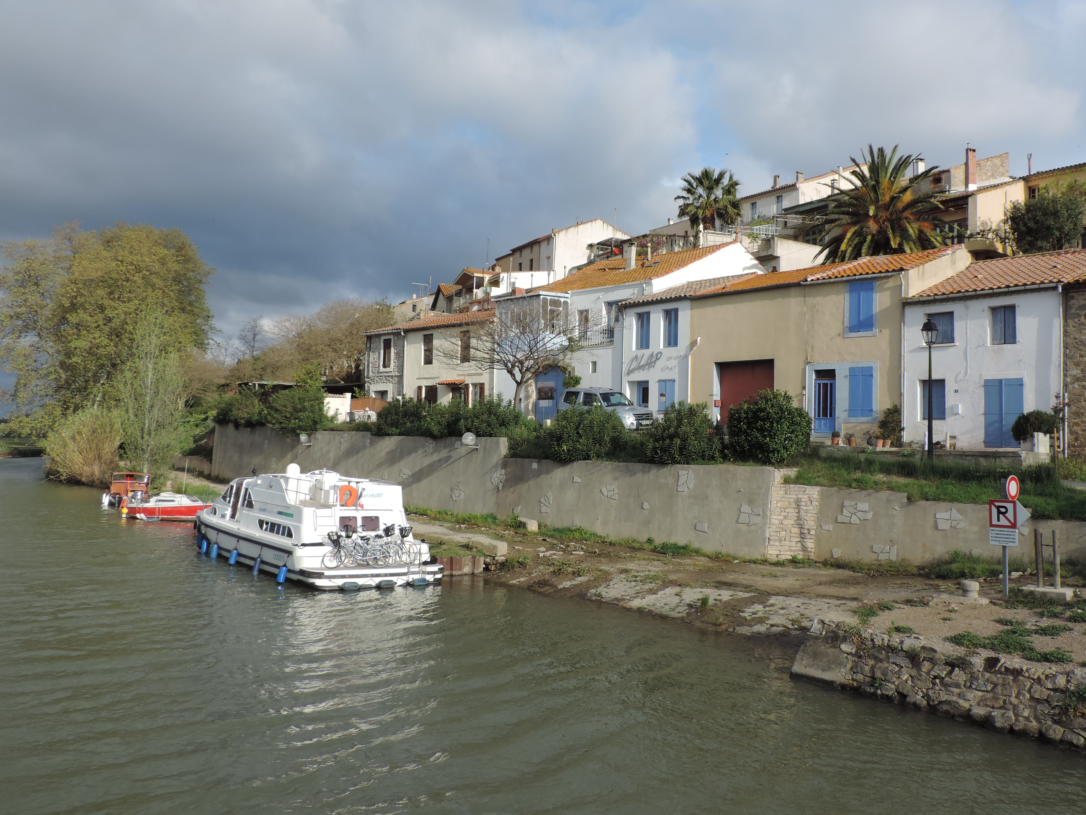 The village Praza at Canal du Midi.